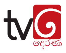 This is TV Derana Logo